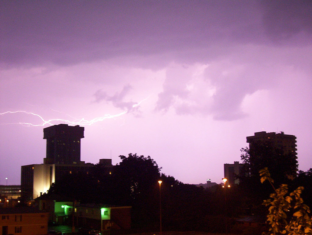 I lucked out and caught some lightning flashing behind Hammons Tower during Monday night's thunderstorm. How'd I do it? By taking picture after picture as fast as I could delete the one before.